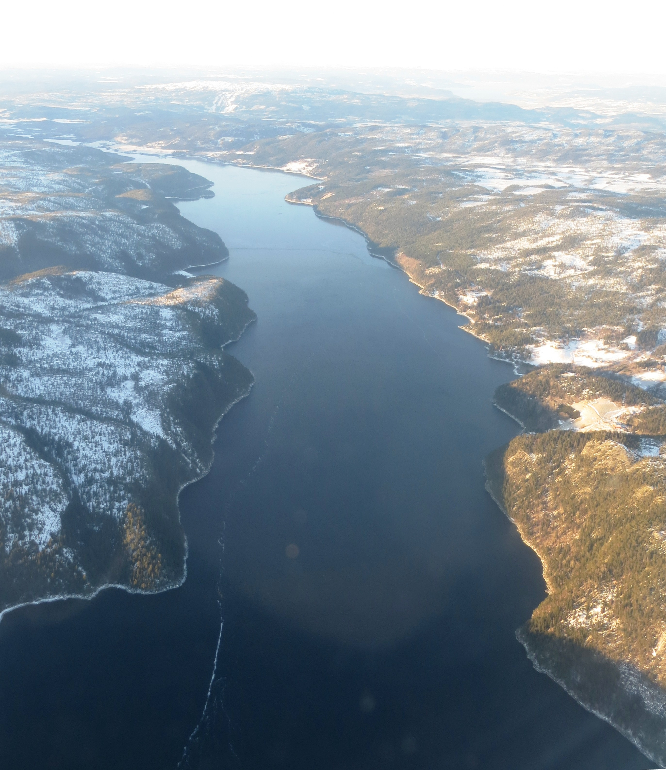 Aerial view from east towards west, of Selbu municipality with Selbusjøen lake, Sør-Trøndelag county, Norway.